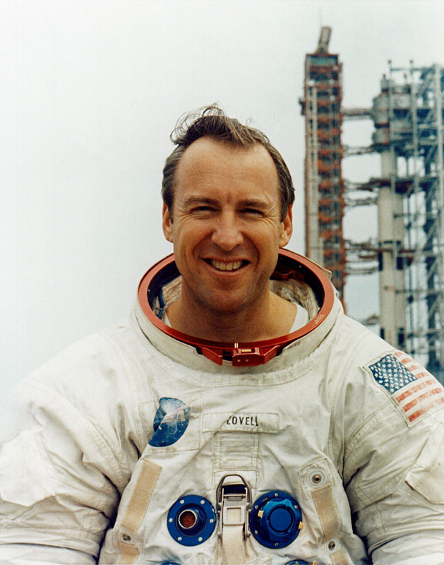 Jim Lovell at the Kennedy Space Center Launch Complex 39.